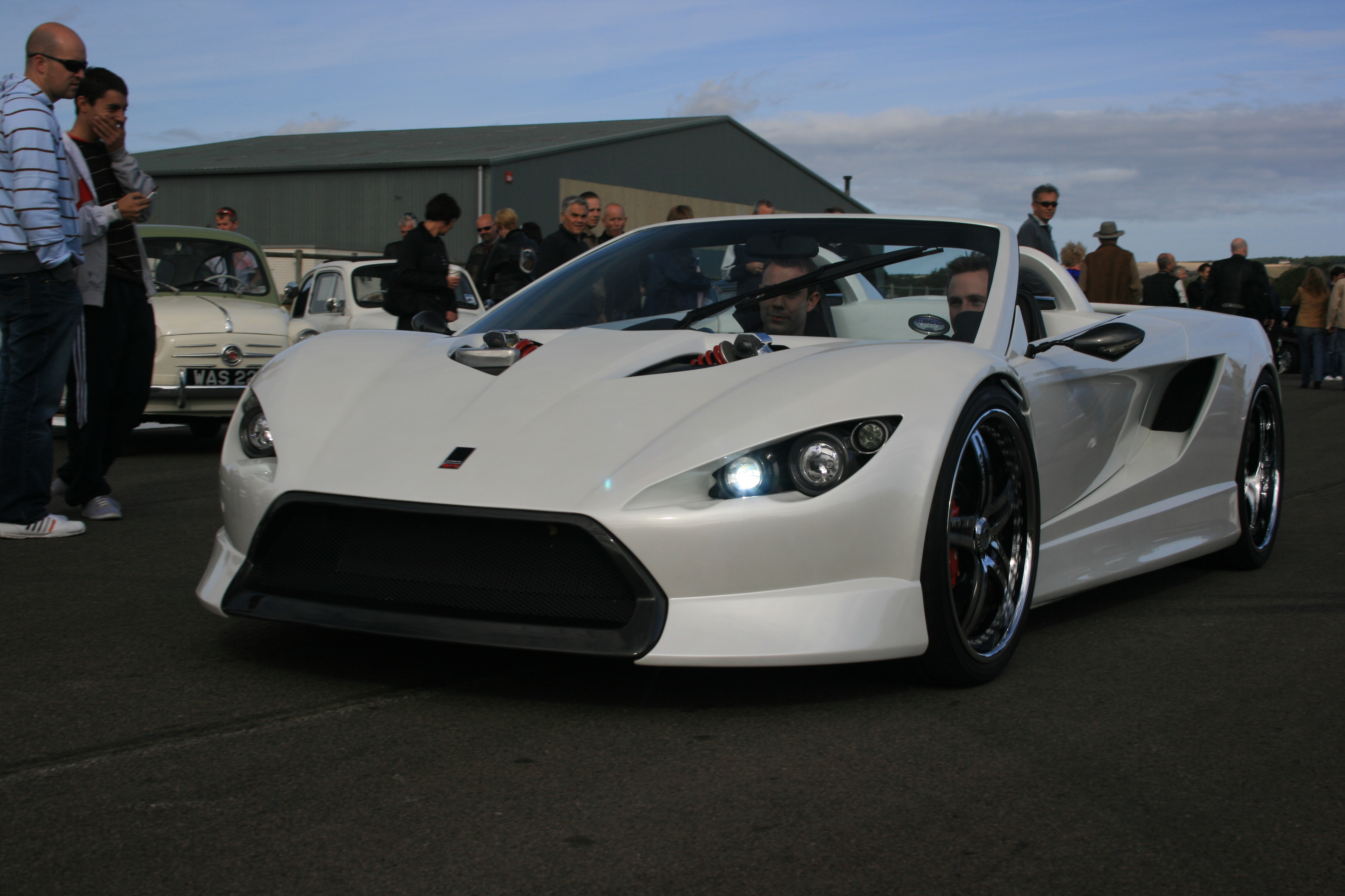 Not really sure how this fits in with Italian Icons - maybe someone can let me know